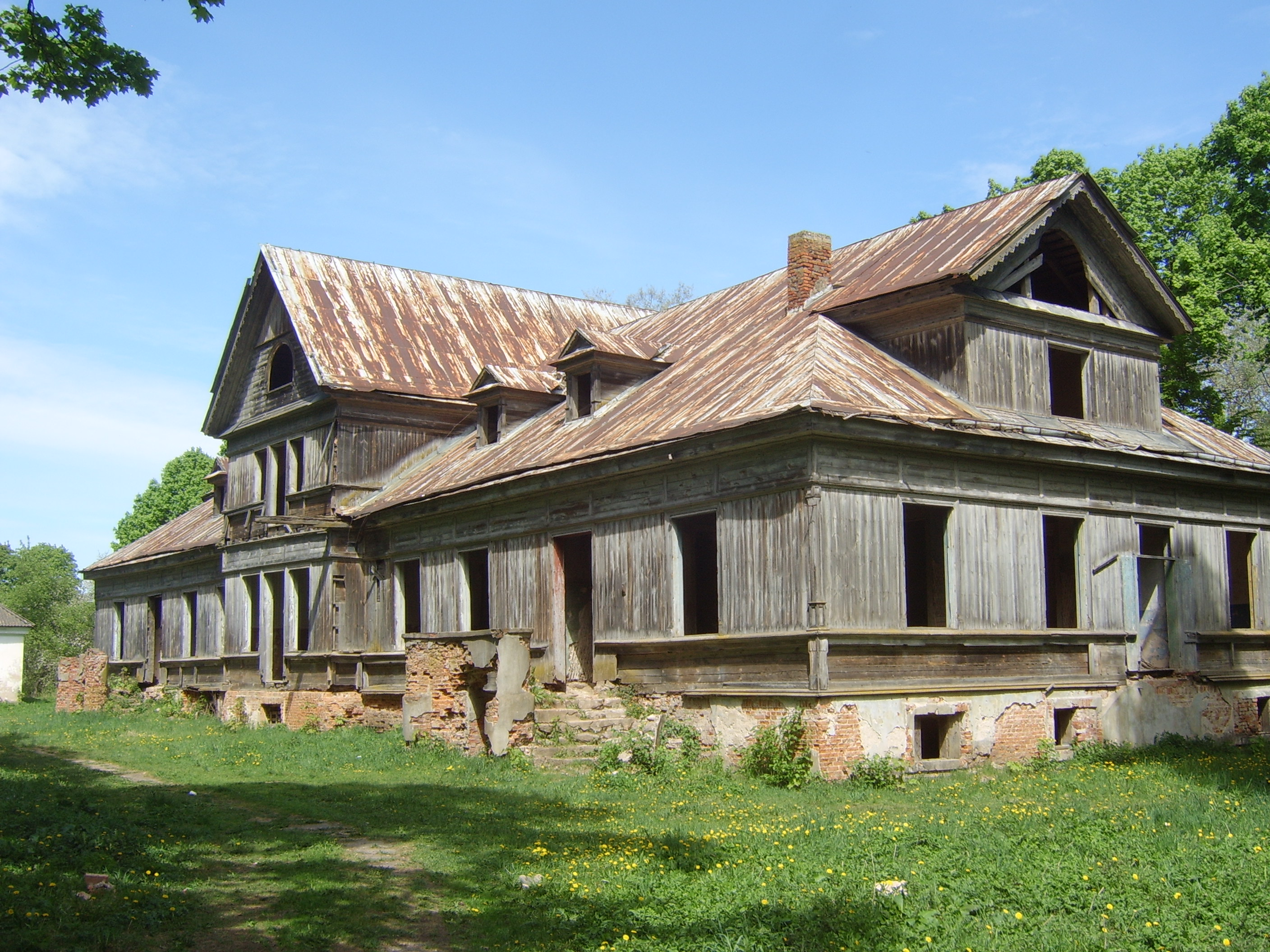 Manor of Rejtan , Hrushauka, Belarus.